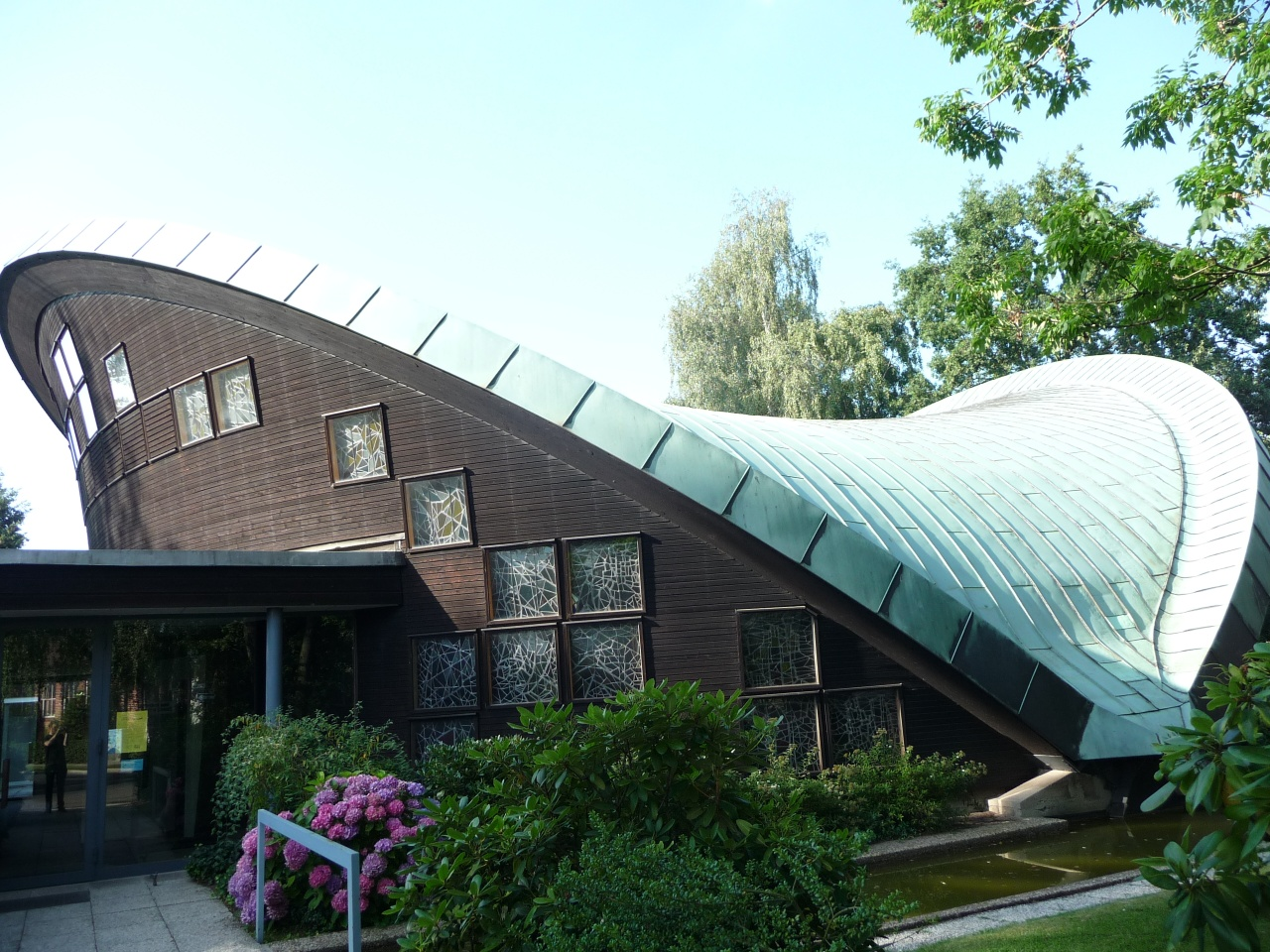 church St. Lukas in Bremen-Grolland